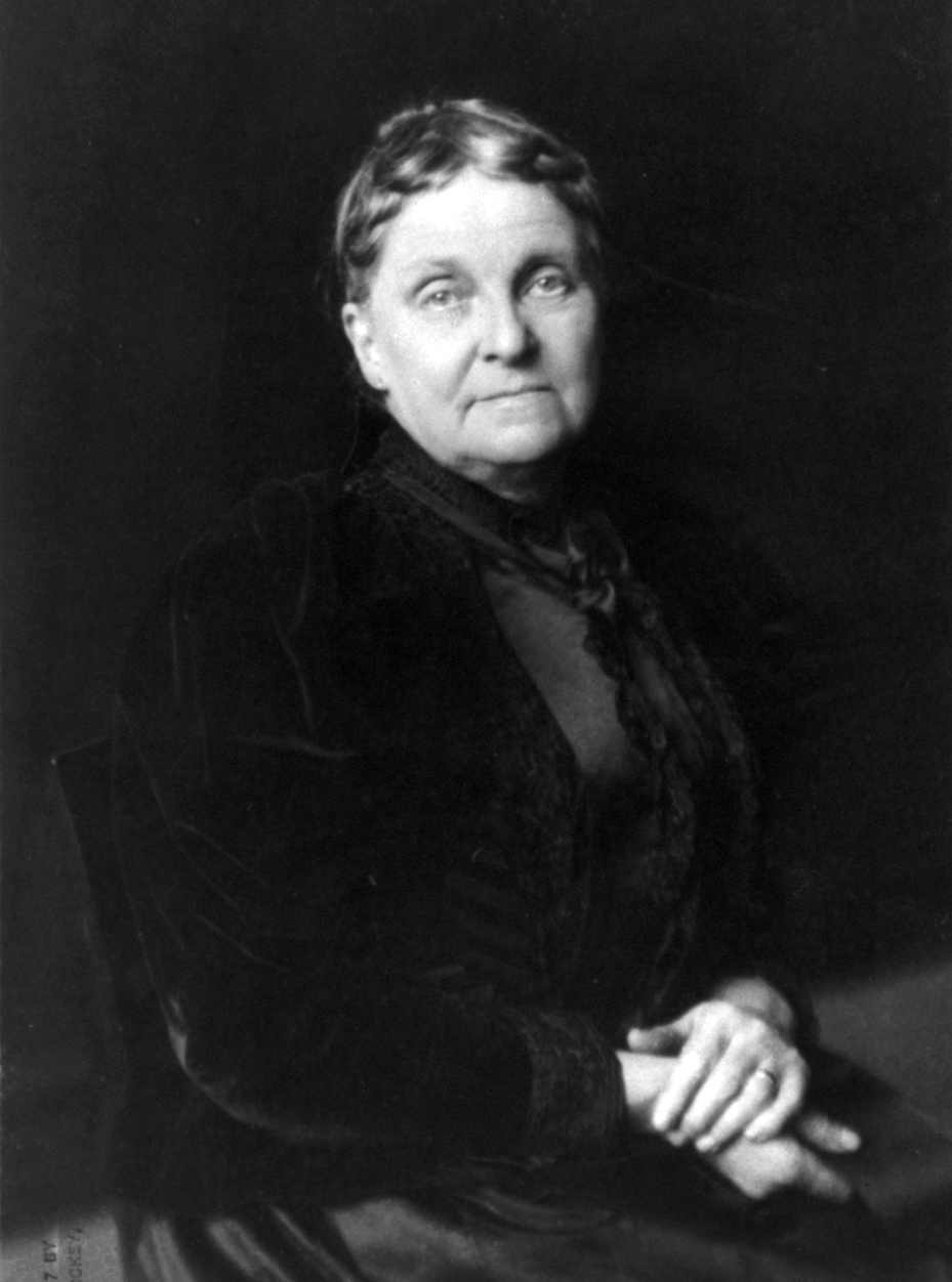 Hetty Green, half-length portrait, seated